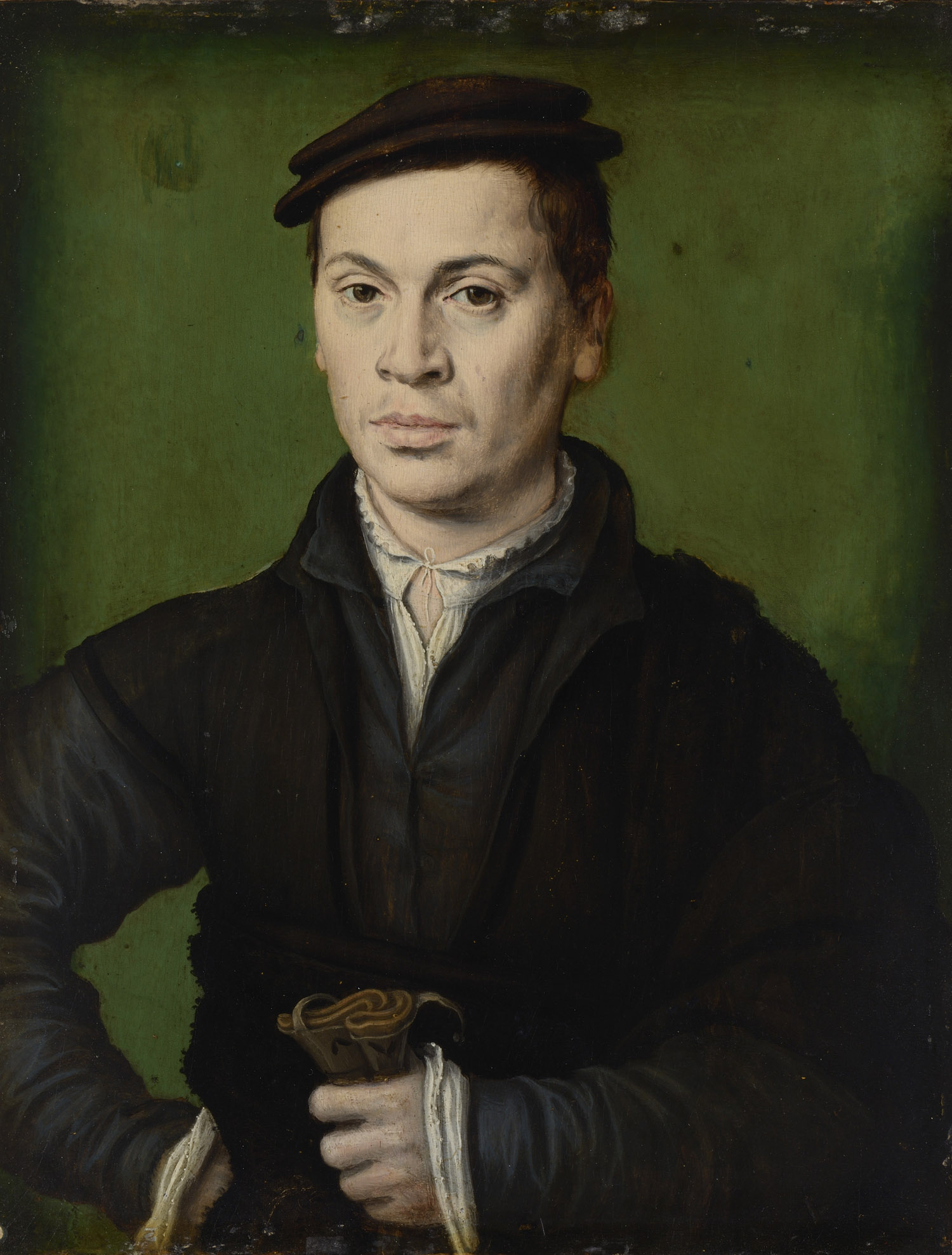 Corneille de Lyon, Homme au béret noir tenant une paire de gants, vers 1530 Huile sur bois H. 24,1 ; L. 18,5 ; Ep. 0,4 cm